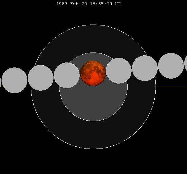 February 1989 lunar eclipse chart of moon's total lunar eclipse path through the earth's shadow. thumb